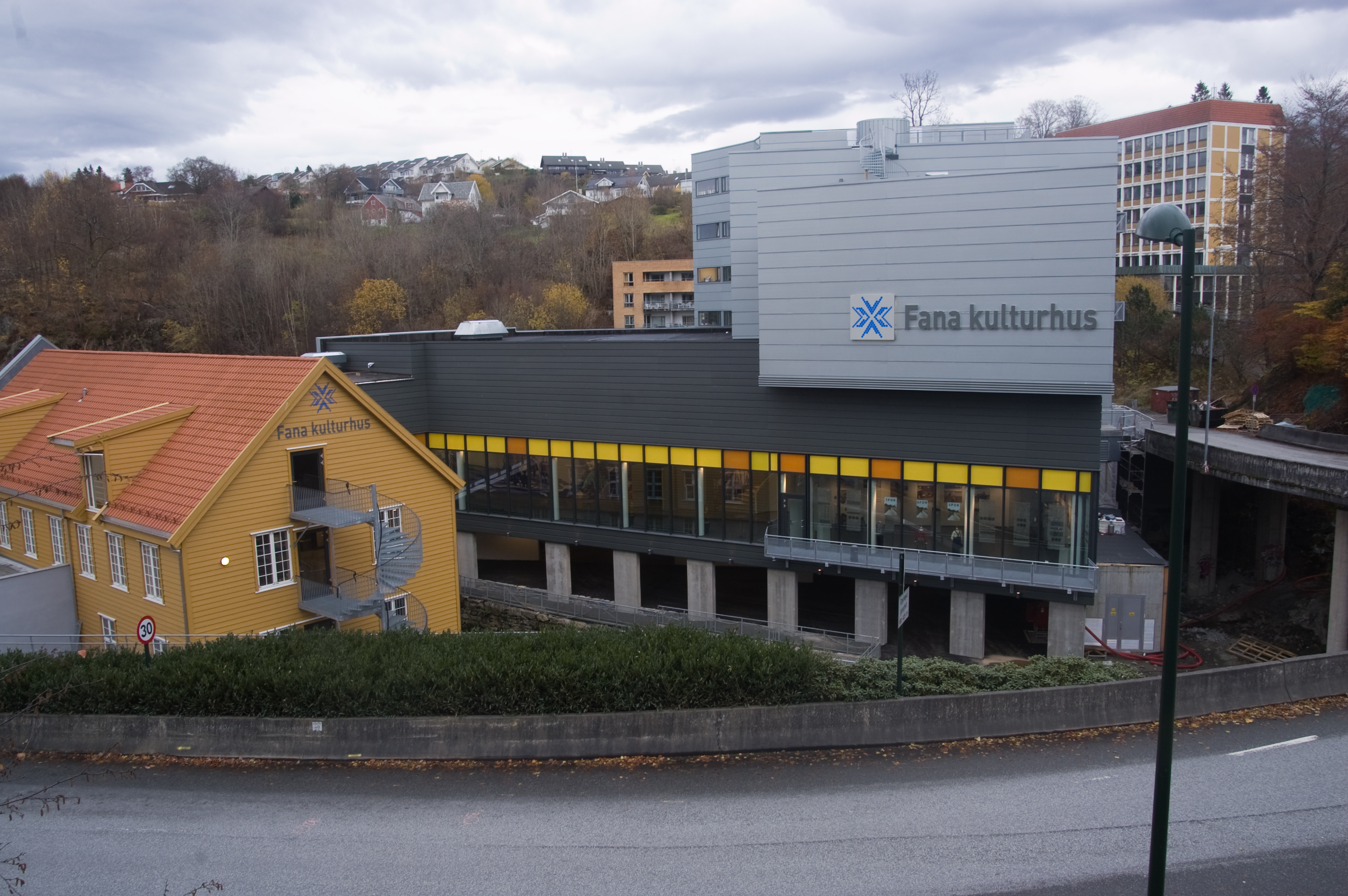 The new cultural centre in Nesttun, Bergen, Norway.